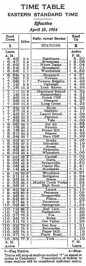 The last passenger train timetable of the Maryland and Pennsylvania Railroad (the "Ma and Pa"), published 25 April 1954 without any copyright notice. The railroad discontinued all passenger service on 31 August 1954